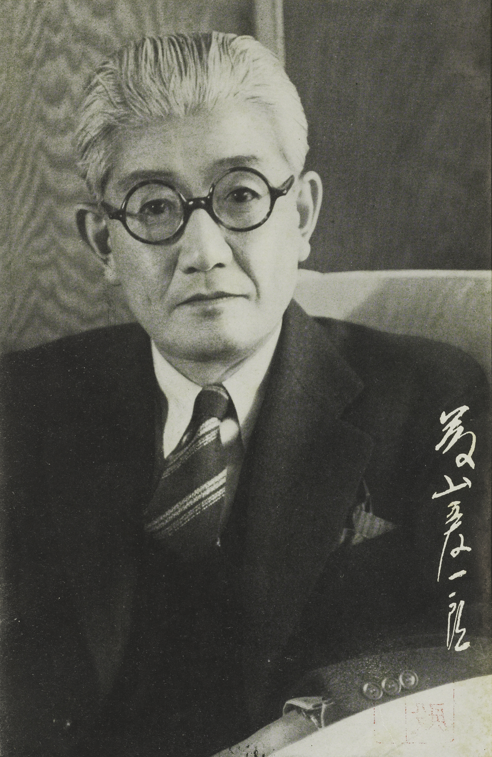 Portrait of Fujiyama Aiichiro (藤山愛一郎, 1897 – 1985)